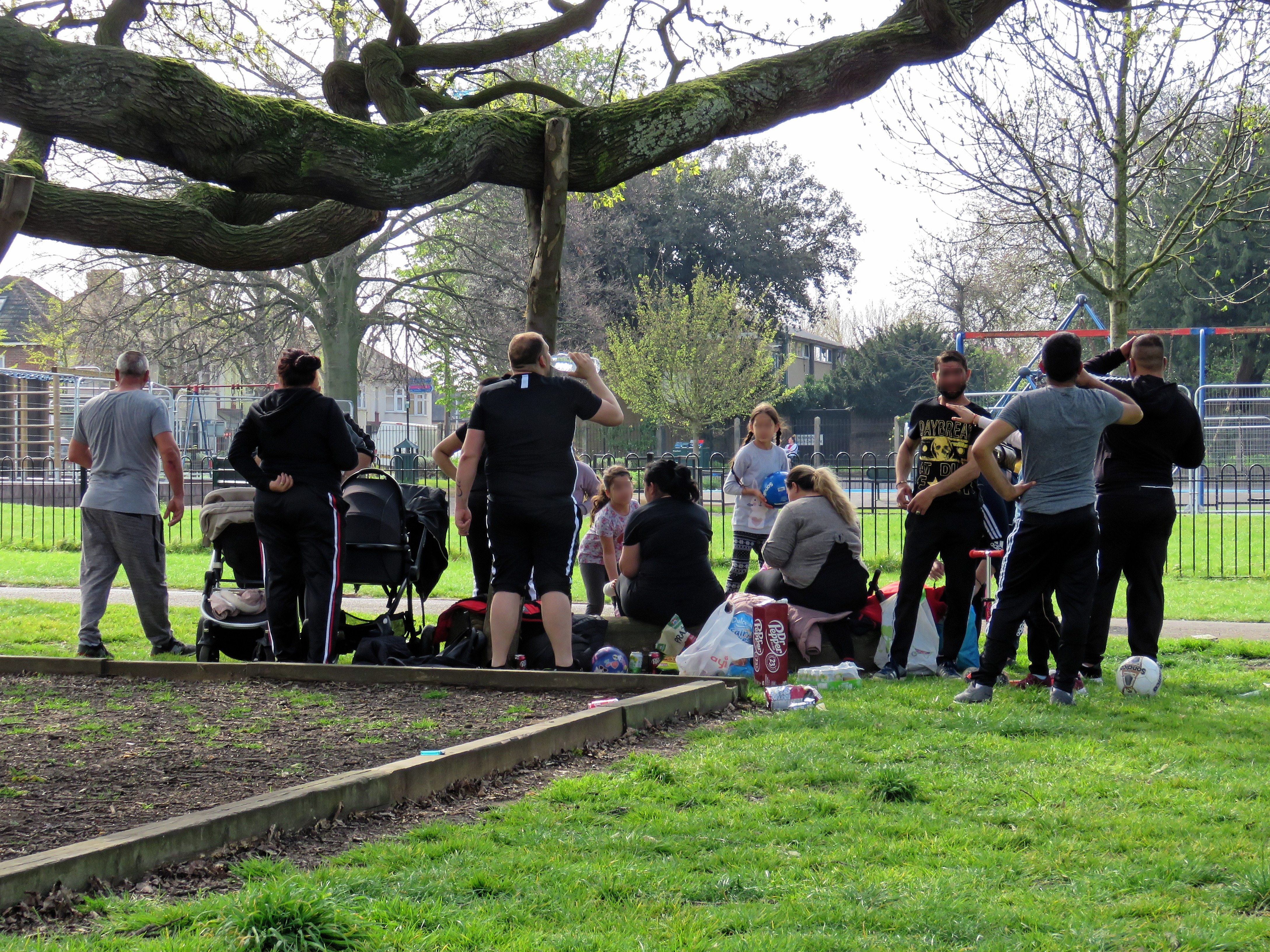 A group of people's idea of one form of exercise a day and social distancing at Bruce Castle Park during the Covid-19 coronavirus pandemic in Haringey, London, England.Government legislated instructions to limit the spread of Covid-19 at this time, were for people, when outside, to keep a six foot (2 metre) distance from others, and to only leave home for supplies of essential food, necessities, and medical needs, to help a vulnerable person, and travelling to and from work as long as the work was for an essential service. Permitted through government public briefings was one form of exercise a day for one hour, alone or with people a person lived with, this exercise limited typically to walking, running and cycling, but not sports, including ball sports, and non-exercise activities such as sitting or sunbathing which would encourage close human grouping.Mobile device view: Wikimedia (April 2020) makes it difficult to immediately view photo groups related to this image. To see its most relevant allied photos, click on COVID-19 pandemic in London, and this uploader's Parks and Gardens photos. You can add a click-through 'categories' button to the very bottom of photo-pages you view by going to settings... three-bar icon top left.Desktop view: Wikimedia (April 2020) makes it difficult to immediately view the helpful category links where you can find images related to this one in a variety of ways; for these go to the very bottom of the page.The blurring of part of this image was through the Redacted web site in-browser alteration which automatically deletes photo EXIF details, the date added back manually from the original photo. This image is one of a series of date and/or subject allied consecutive photographs kept in progression or location by file name number and/or time marking.Camera: Canon PowerShot SX60 HSSoftware: File lens-corrected, optimized, perhaps cropped, with DxO PhotoLab 2 Elite, and likely further optimized with Adobe Photoshop CS2.